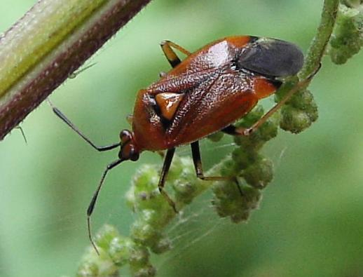 Deraeocoris ruber in Cologne, Germany